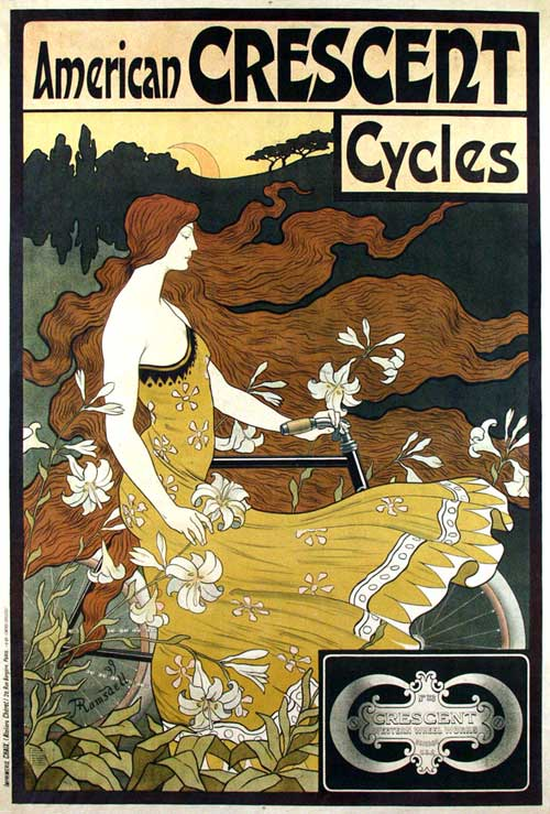 Poster advertising American Crescent Cycles, 1899 - 108,5 x 159,5 cm, Collectie Yesterdays, Weert